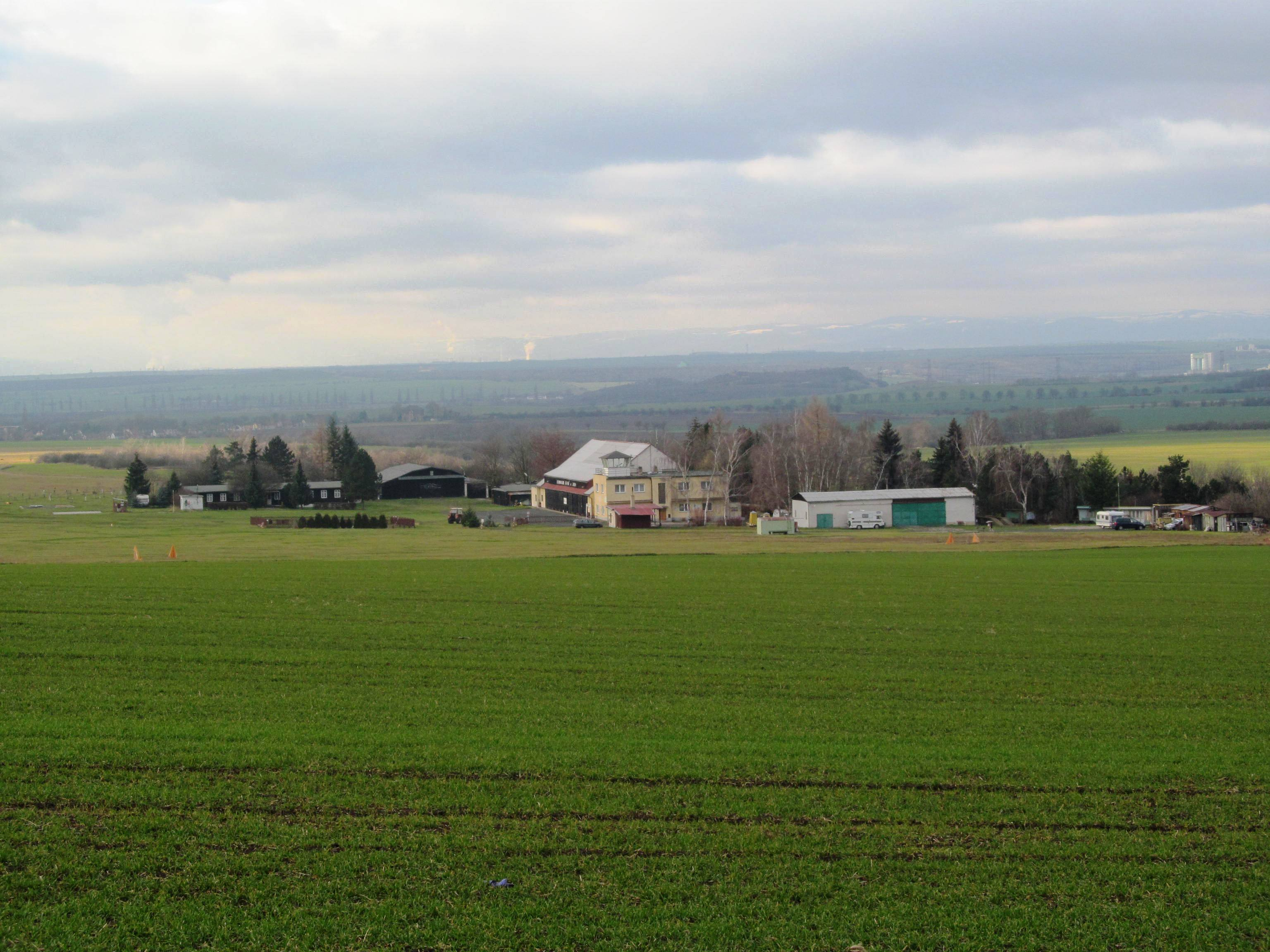 Raná Airport